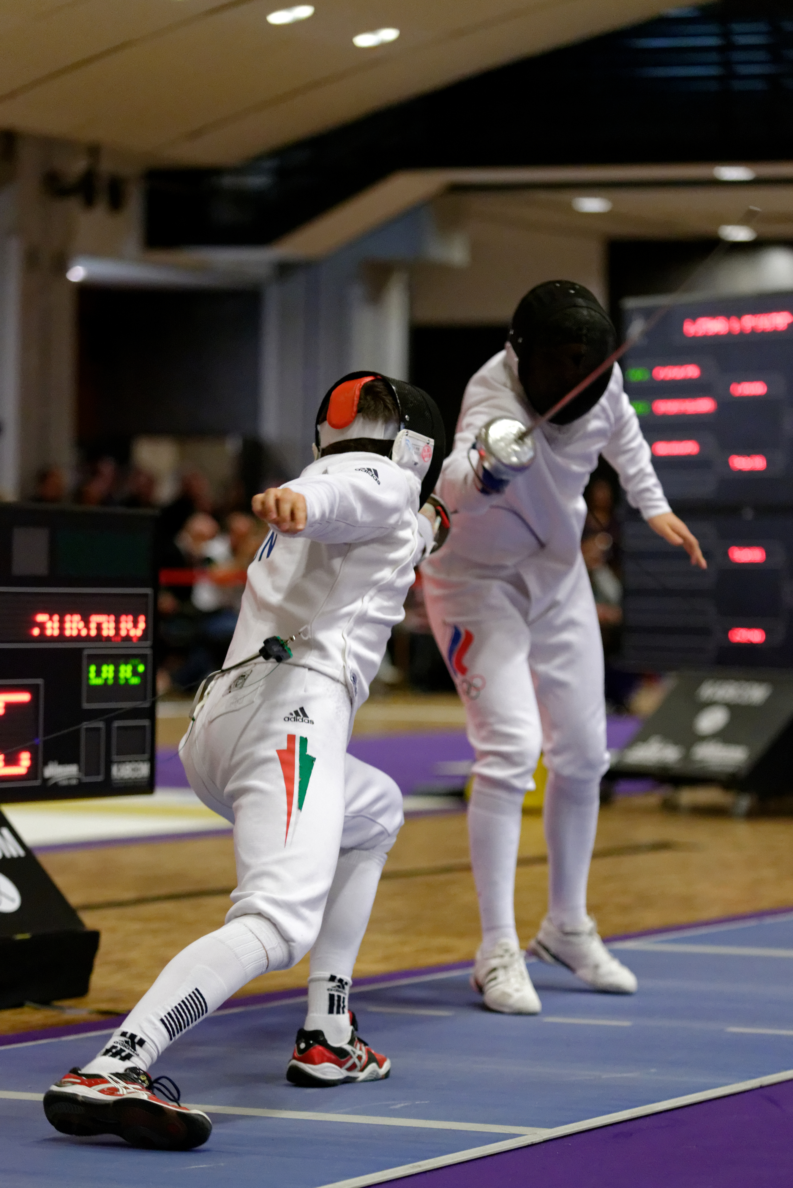 Géza Imre (L) of Hungary fences against Russia's Pavel Sukhov (R) in the T64 of the Challenge Réseau Ferré de France–Trophée Monal 2013, a men's épée FIE World Cup competition. Louvre Carrousel, Paris.